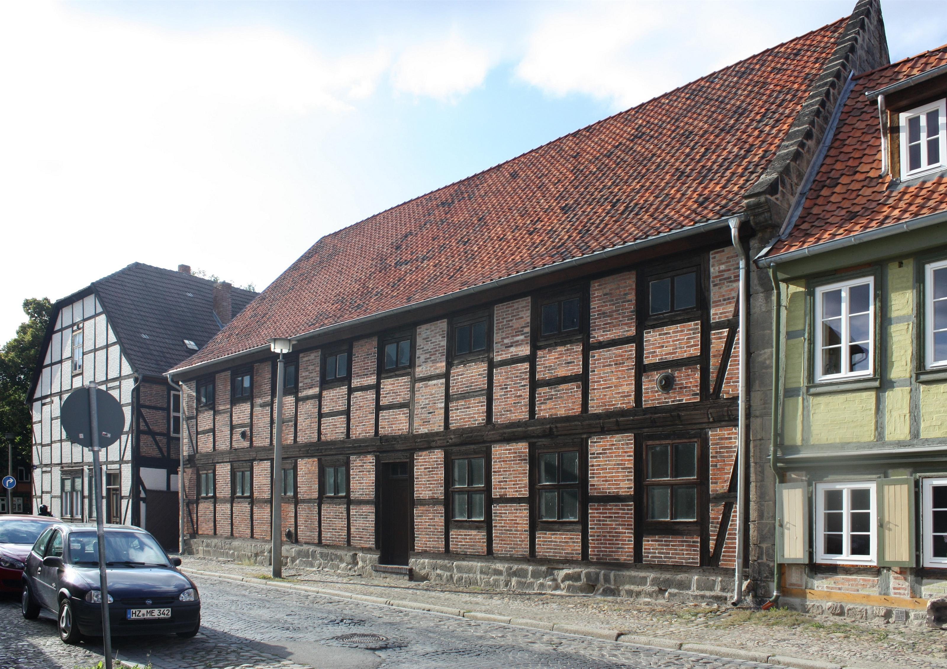 This is a photograph of an architectural monument.It is on the list of cultural monuments of Quedlinburg Augustinern 1 in Quedlinburg